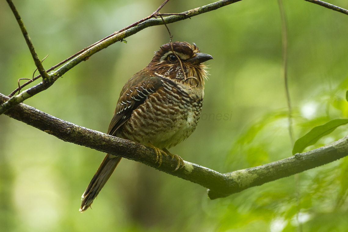 Short-legged Ground-Roller - Masoala - Madagascar_S4E7329